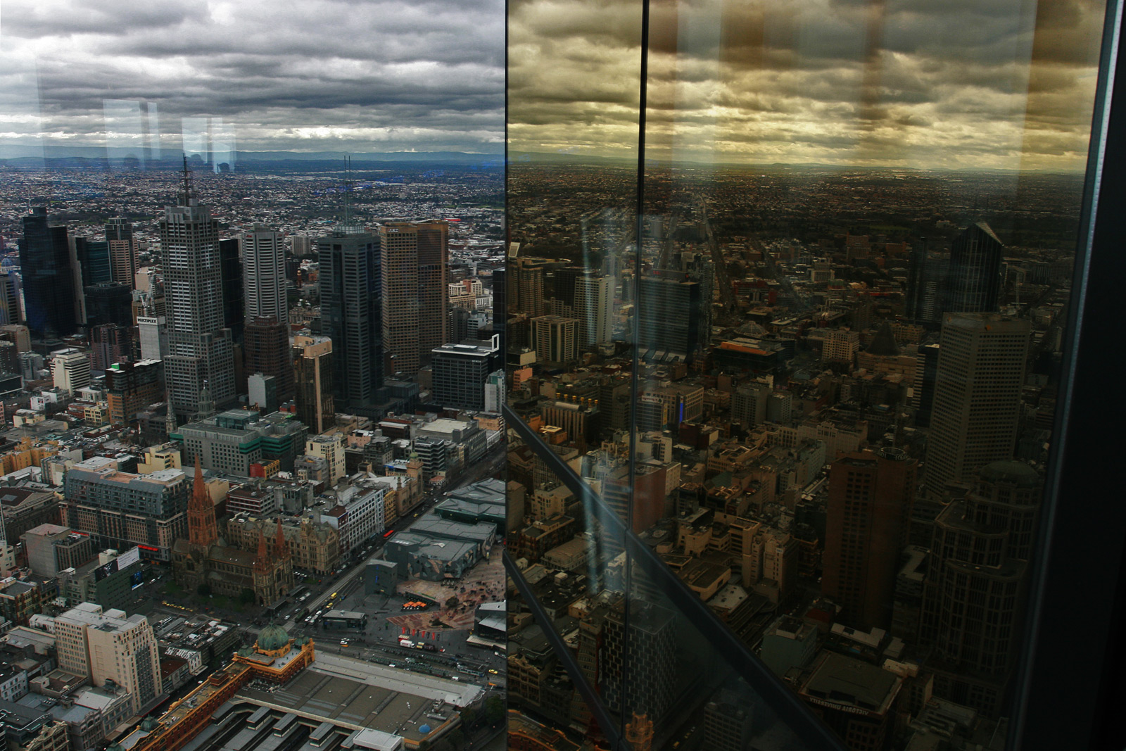 View over Melbourne CBD looking north-east from Skydeck, Level 88 Eureka Tower, with view reflected in gold plated windows of tower.